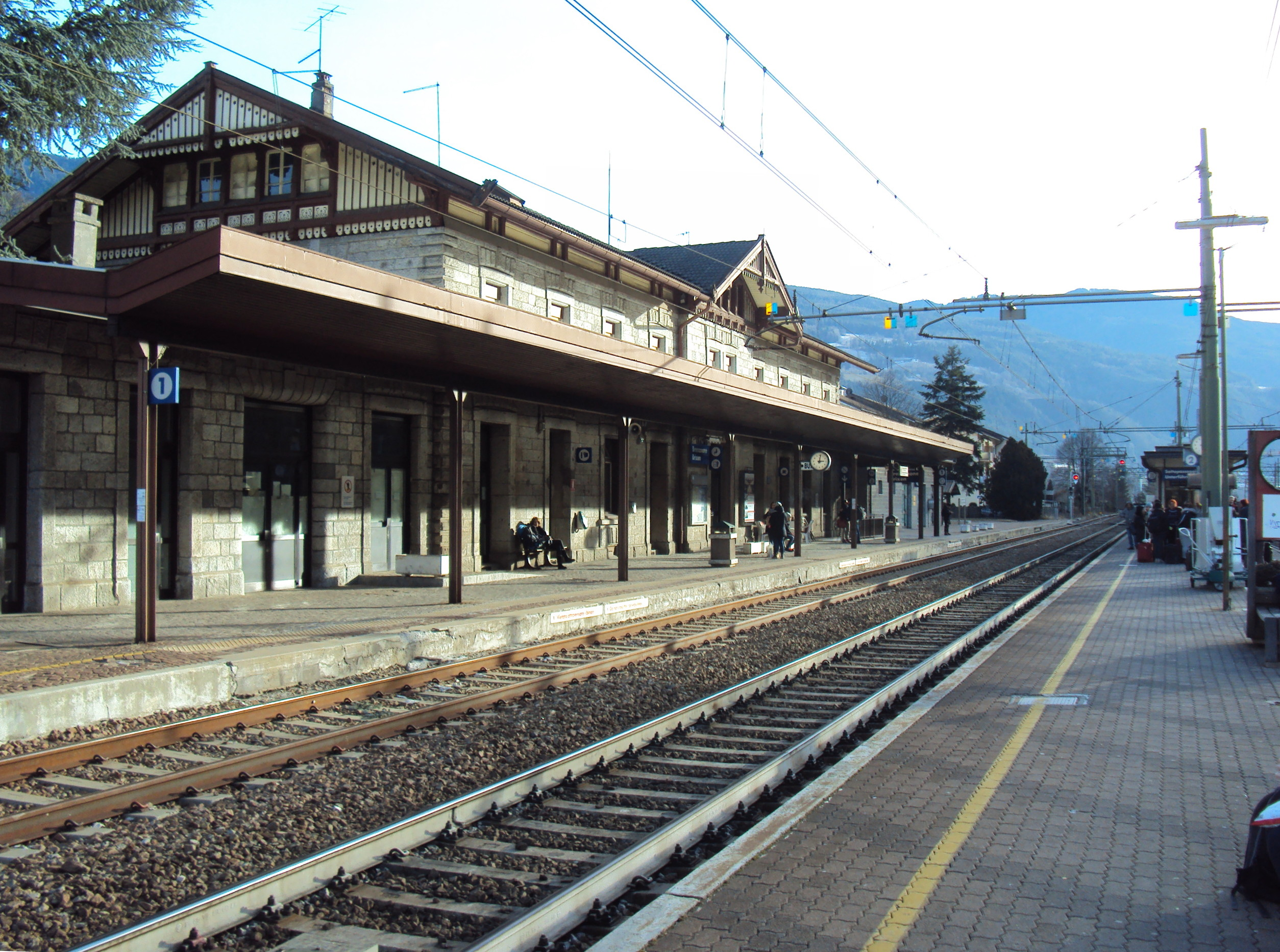 The station building of Brixen train station, Italy, as seen from the platform.